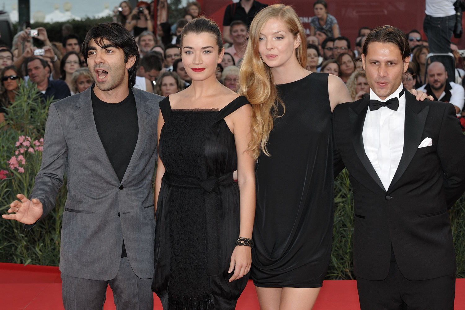 Left to right: Fatih Akin, Anna Bederke, Pheline Roggan and Adam Bousdoukos at closing ceremony of the 2009 Venice Film Festival